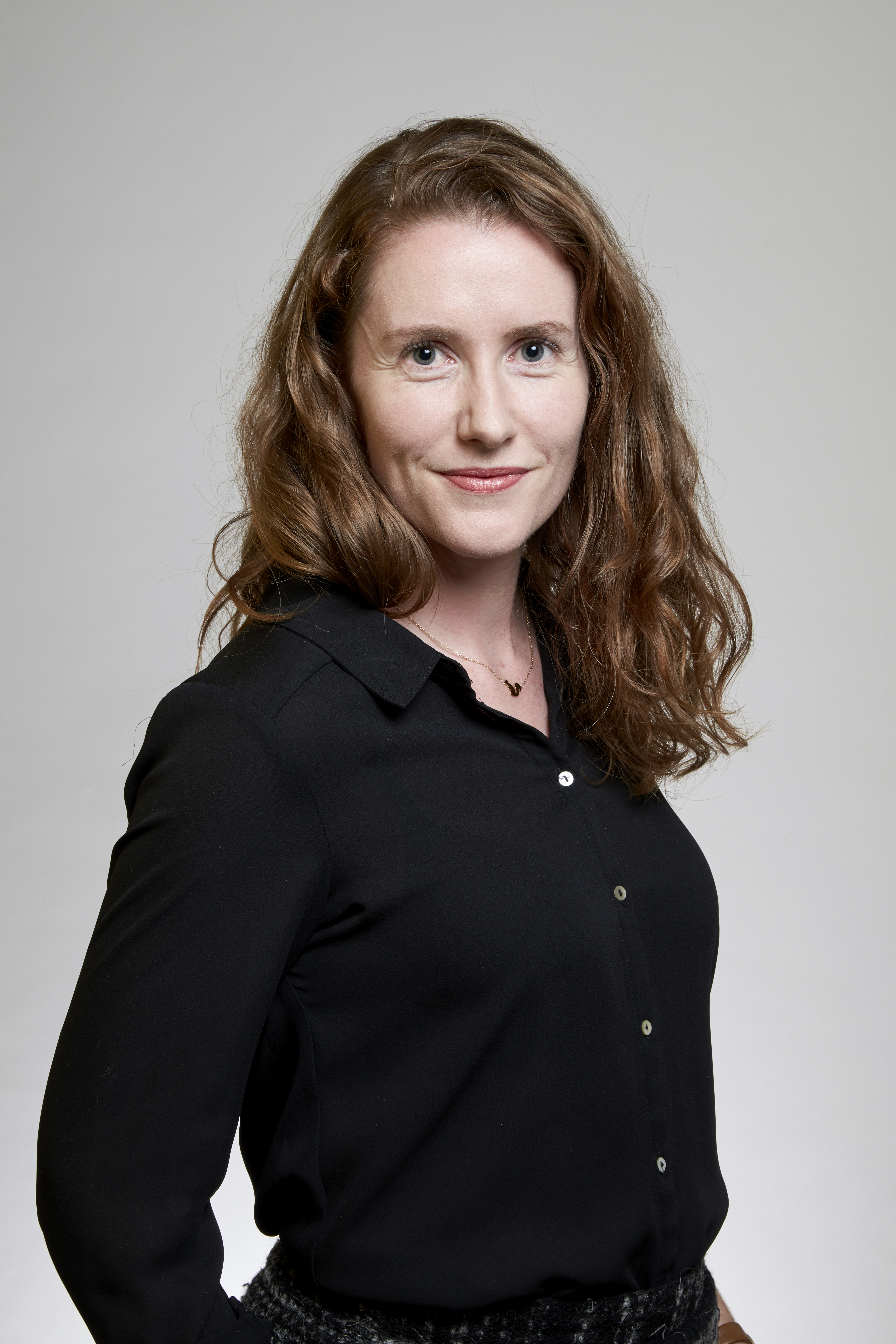 Dr. Suzie Sheehy